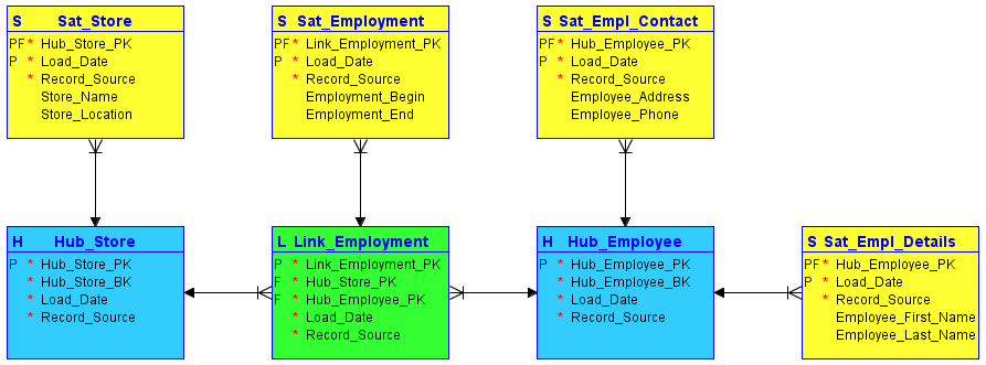 Simple data vault example (two hubs, one link and four satellites)